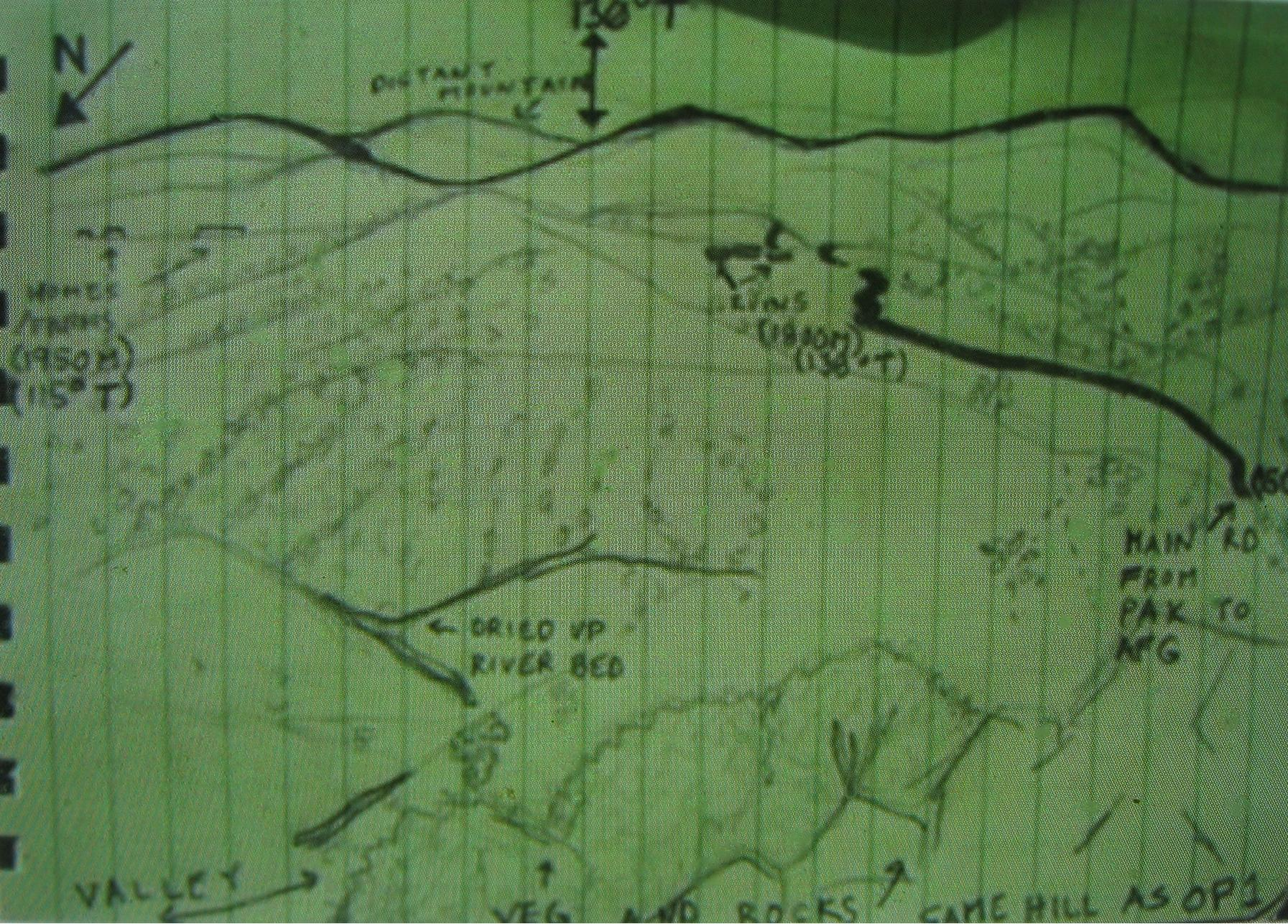 Map drawn prior to Operation Red Wing, briefing the Navy SEALs